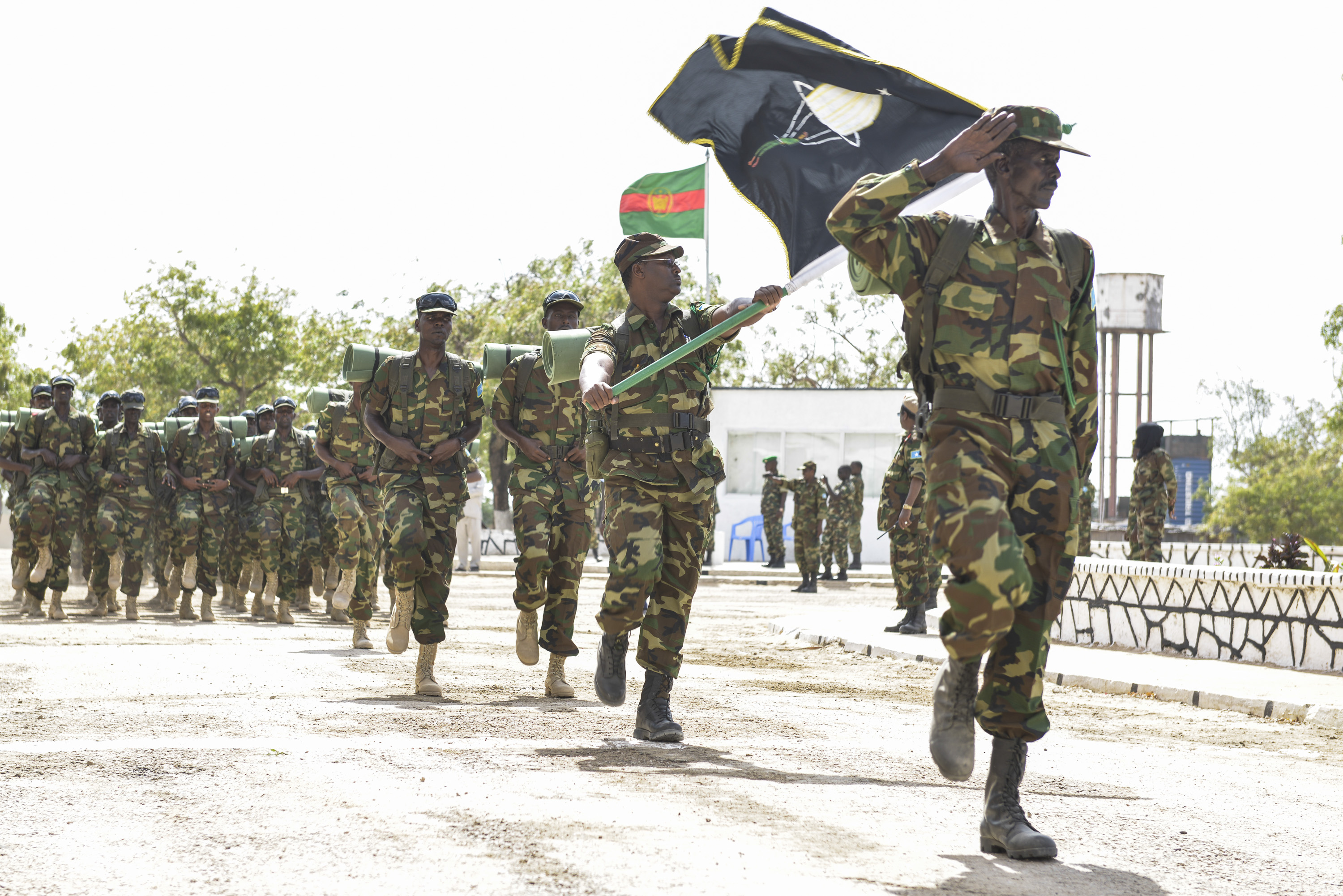 Somali National Army Special Commando unit, DANAB, marches during the 54th Anniversary of the Somali National Army held at the Army Headquarters on 12th April 2014. AU UN IST PHOTO / David Mutua